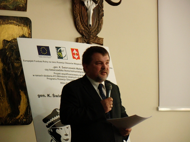 Regional popular scientific Conference on General Karol Swierczewski in Baligród